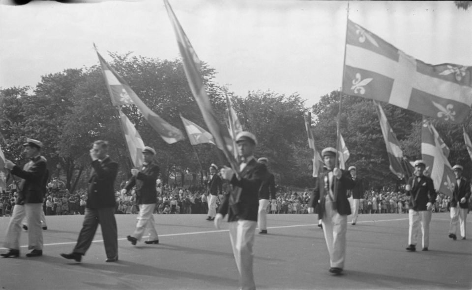 For documentary purposes the original description provided by BAnQ has been retained. Additional descriptive text may be added by Wikimedians with the wiki description = parameter, but please do not modify the other fields.